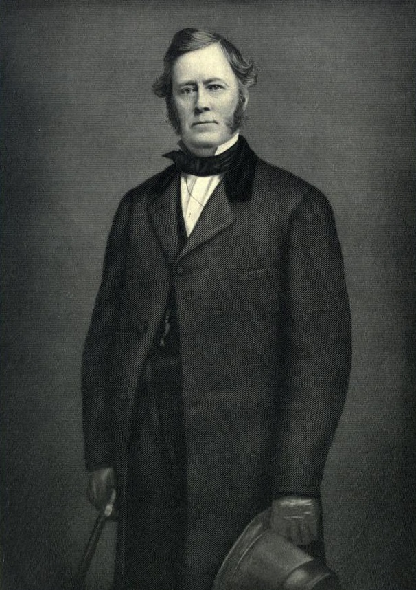 Portrait of Lemuel Stetson